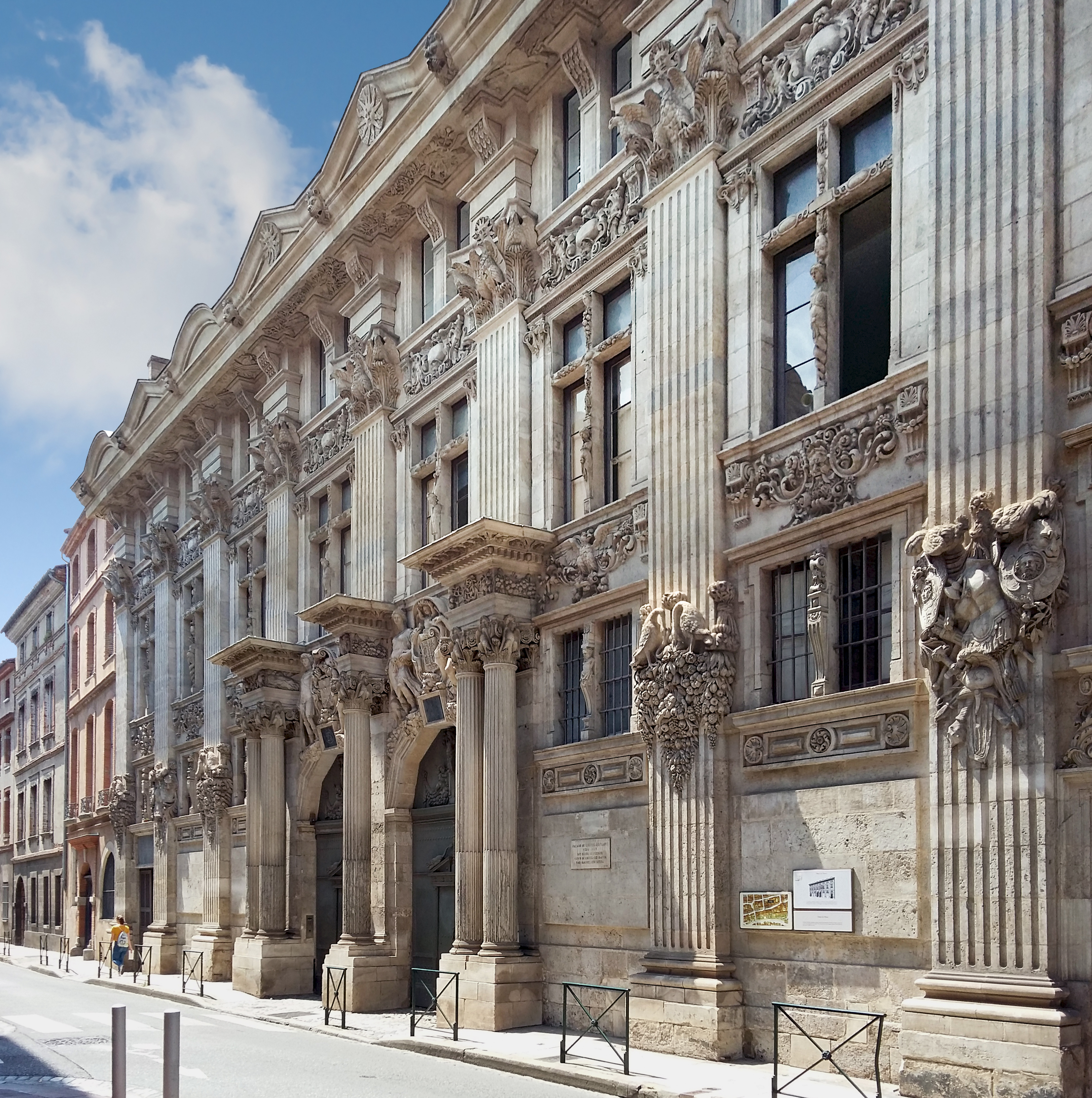 Hôtel de Bagis, de Clary or Daguin or Hôtel de Pierre - facade rue de la Dalbade. The construction of a first hotel began in 1537 under the direction of Nicolas Bachelier: the facade on court to Atlantes is the most beautiful witness. The hotel was modified in 1611 by the architect Pierre Souffron, who had the new street façade built entirely of stone. The carved decoration will however be completed in the nineteenth century. The hotel is classified as a historical monument in 1889.